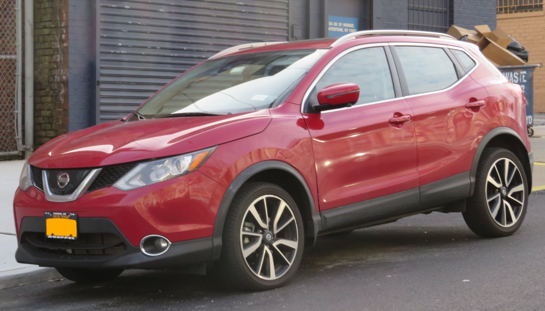 In Queens, New York